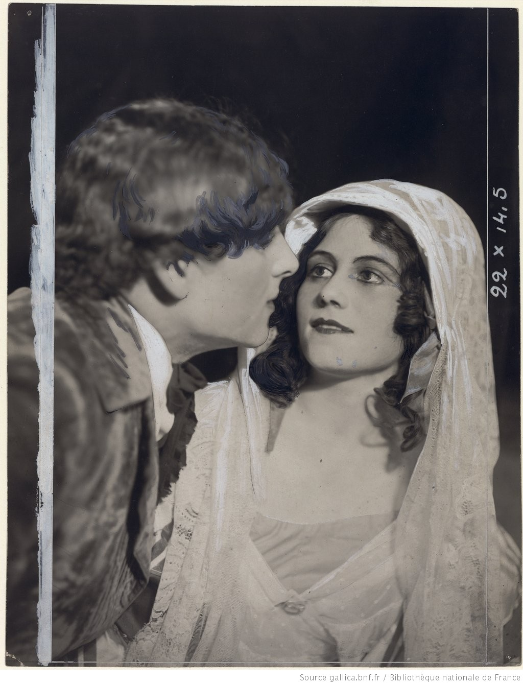 Olga Kokhlova in a play of Russian Ballets. Size original photo: 24 x 18,5 cm